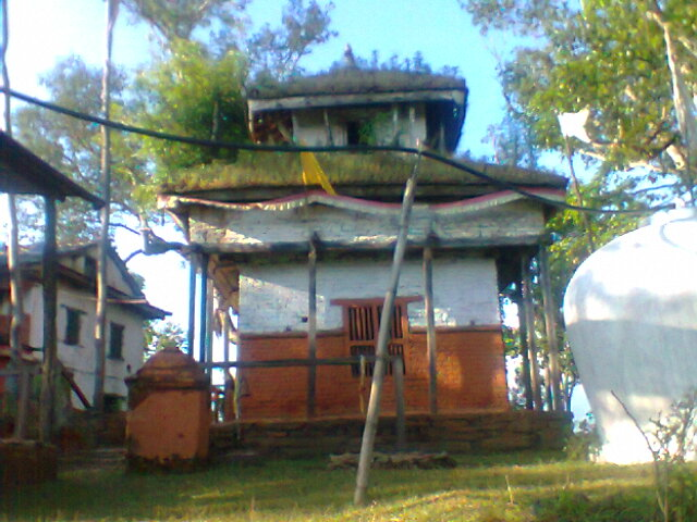 Dhuleshwar Temple in Dailekh